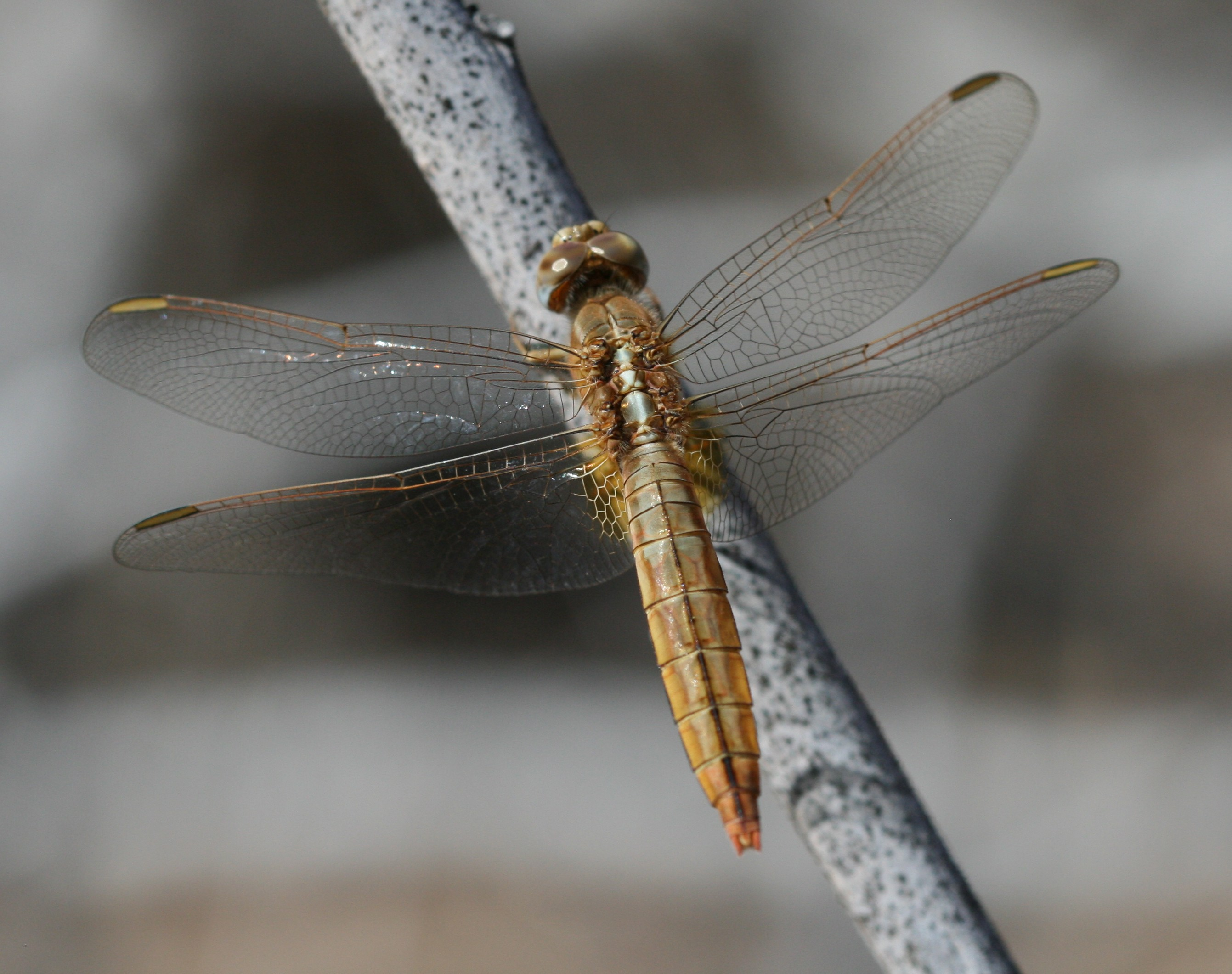 Broad Scarlet (Crocothemis erythraea) female. Callao Salvaje, Tenerife.